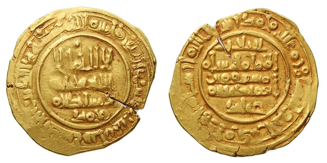 Golden dinar issued by king al-Mu'tadid of Seville, in A.H. 438 (1045/1046 C.E.). Cracked when coined..